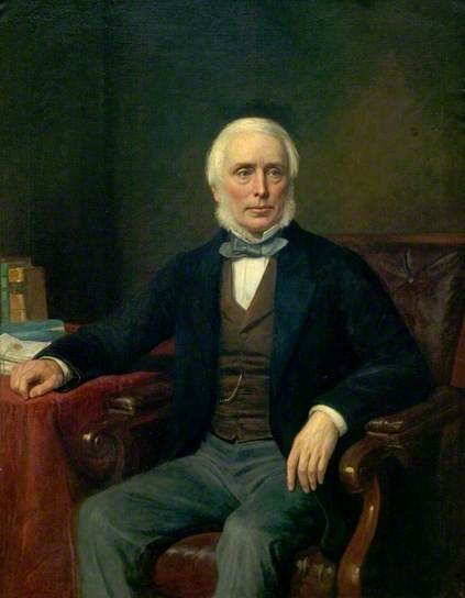 Portrait of Michael Thomas Bass (1799–1884), Brewer, oil on canvas, by an unknown artist. 158 cm x 110 cm. Circa 1870 presumably. Courtesy of the collection of Derby Museums and Art Gallery.